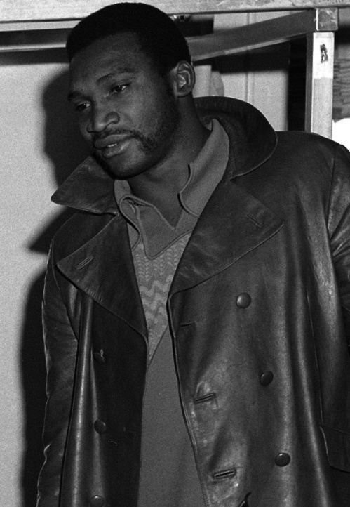 Professional football player Wendell Hayes of the Kansas City Chiefs visits patients at Fitzsimons General Hospital in Aurora, Colorado.